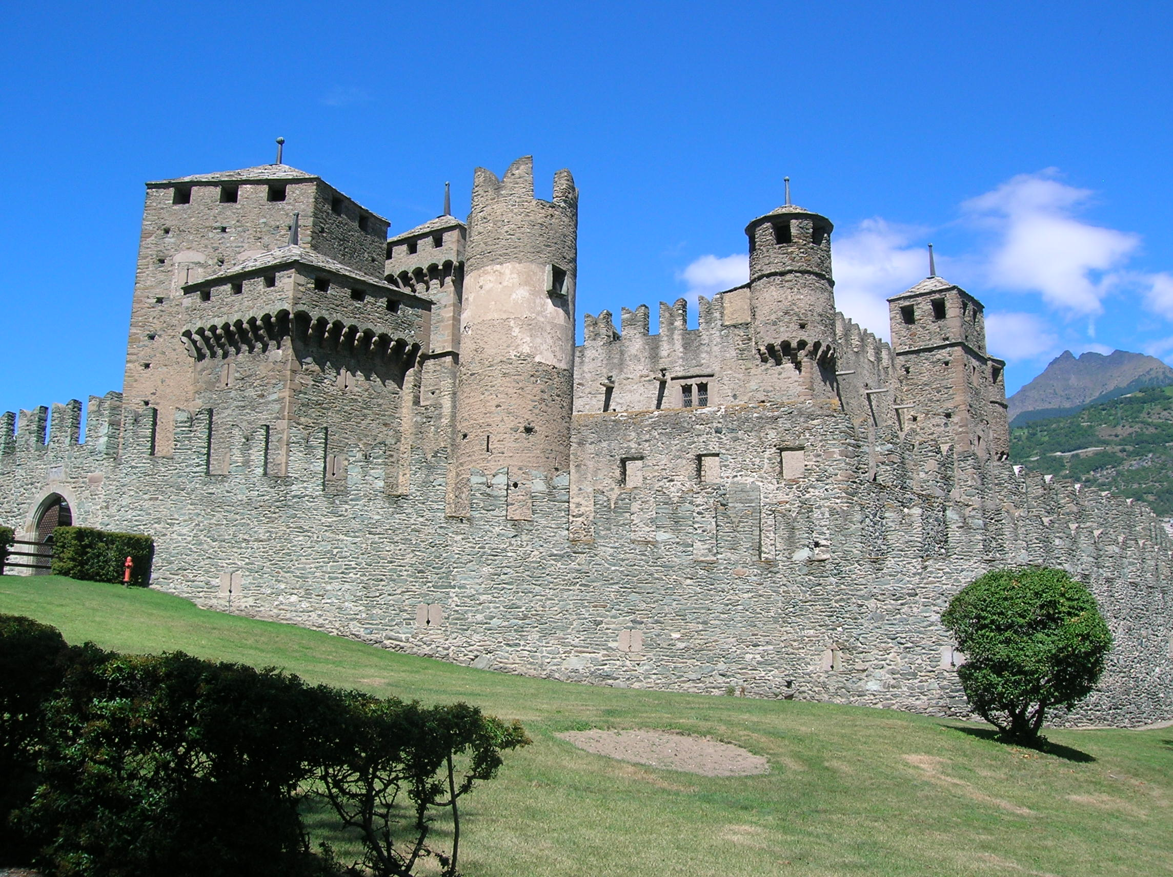 This is a photo of a monument which is part of cultural heritage of Italy.